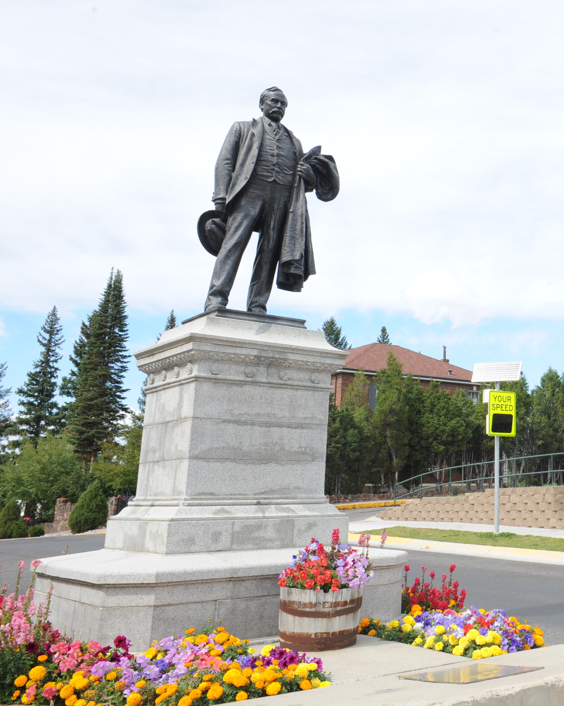 Statue of Marcus Daly by Augustus Saint-Gaudens at the Montana Tech university campus, Butte, Montana